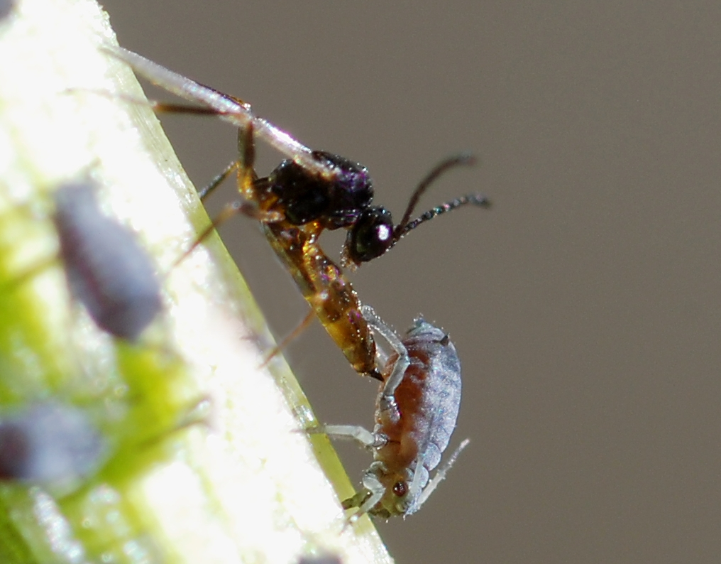 A small braconid wasp laying an egg inside a Black Bean Aphid (Aphis fabae). The aphid is about 1 mm long.